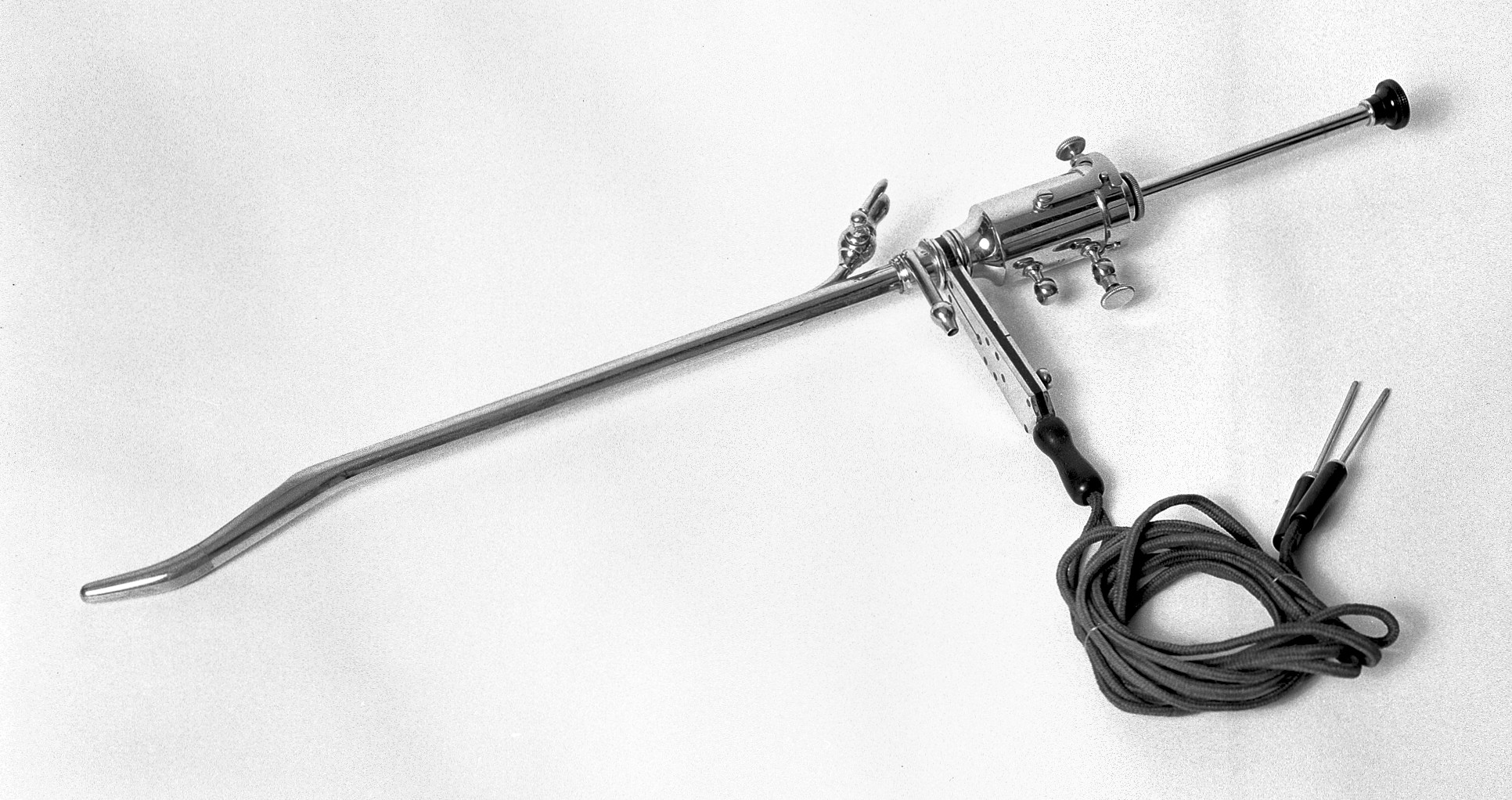 Urethroscope designed by Otto Ringleb, with optical system designed by Carl Zeiss. Wellcome Images Keywords: urethra, examination, instruments, 20th century; G. Wolf